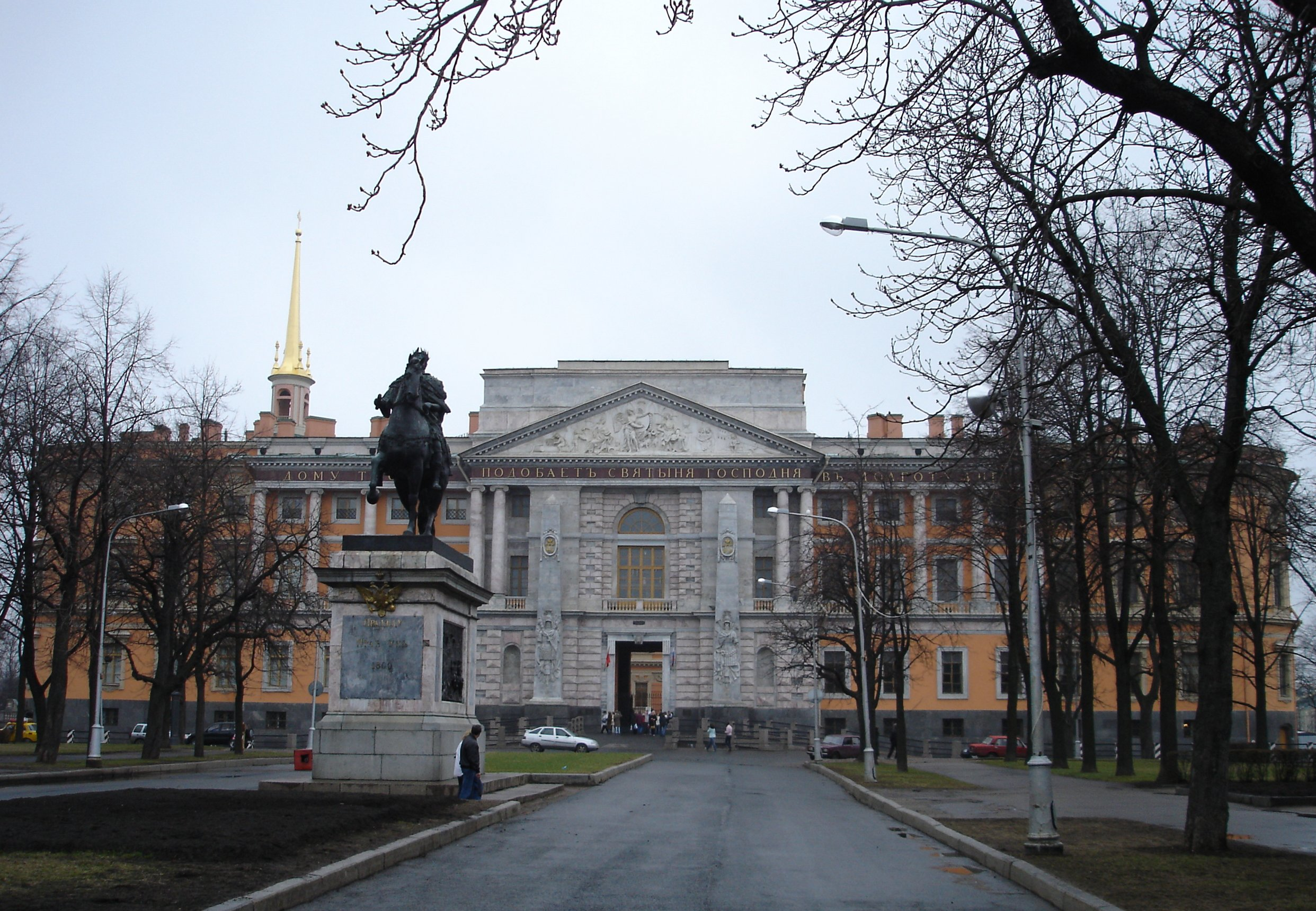 St Michael's Castle in Saint Petersburg, May 2005.